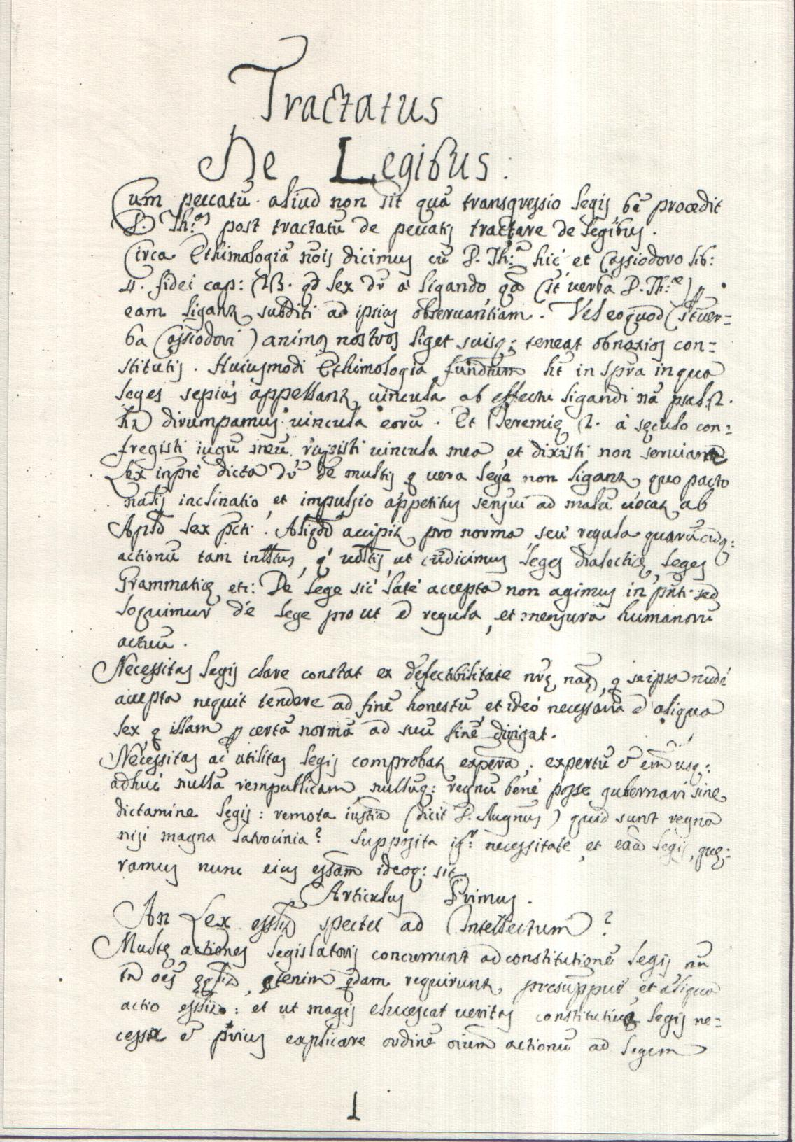 Rosario Mary Hagius' "Tractatus De Legibus" (1719)